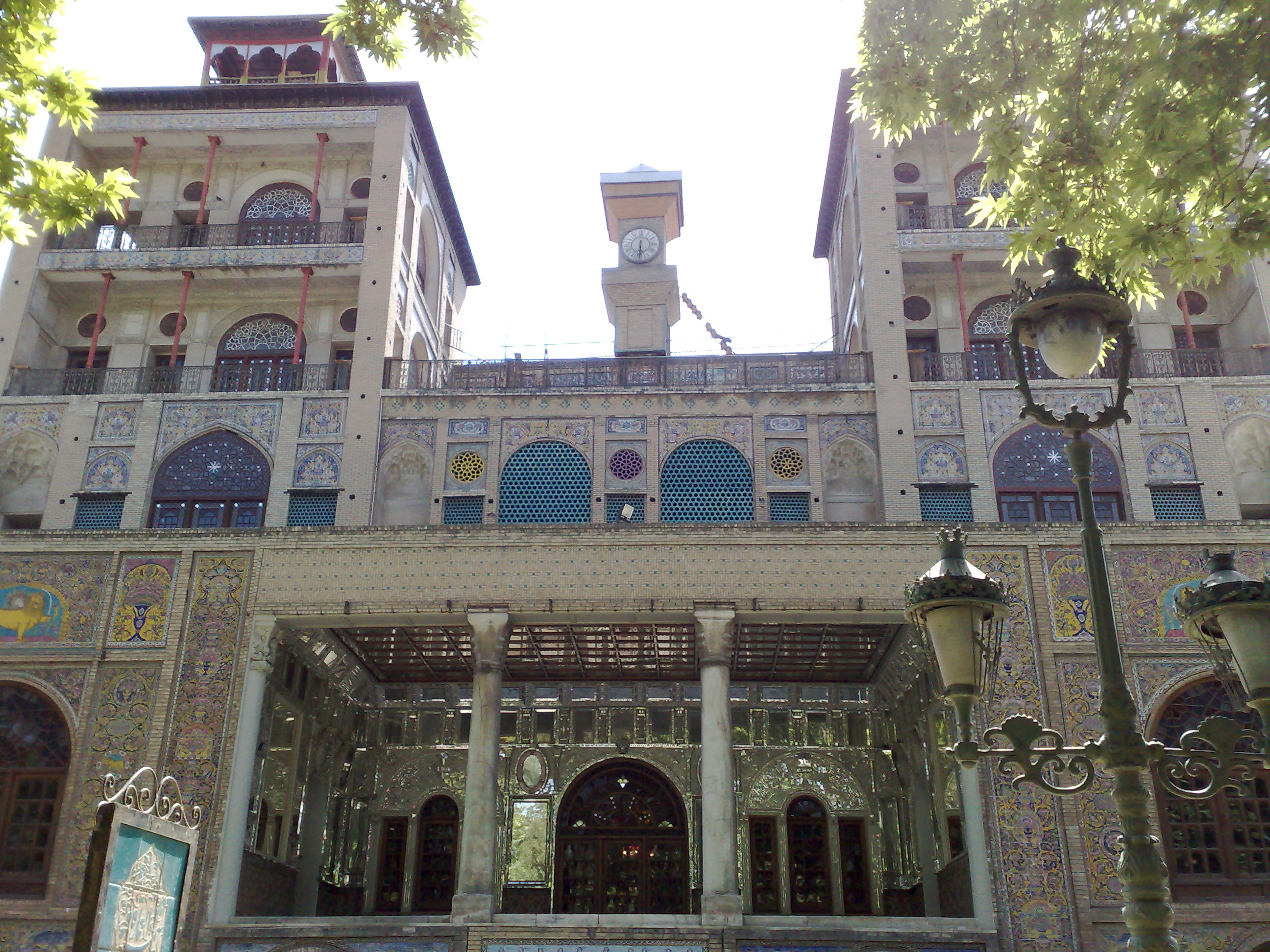 Facade view of Shams-ol-Emareh — with mirrored balcony.